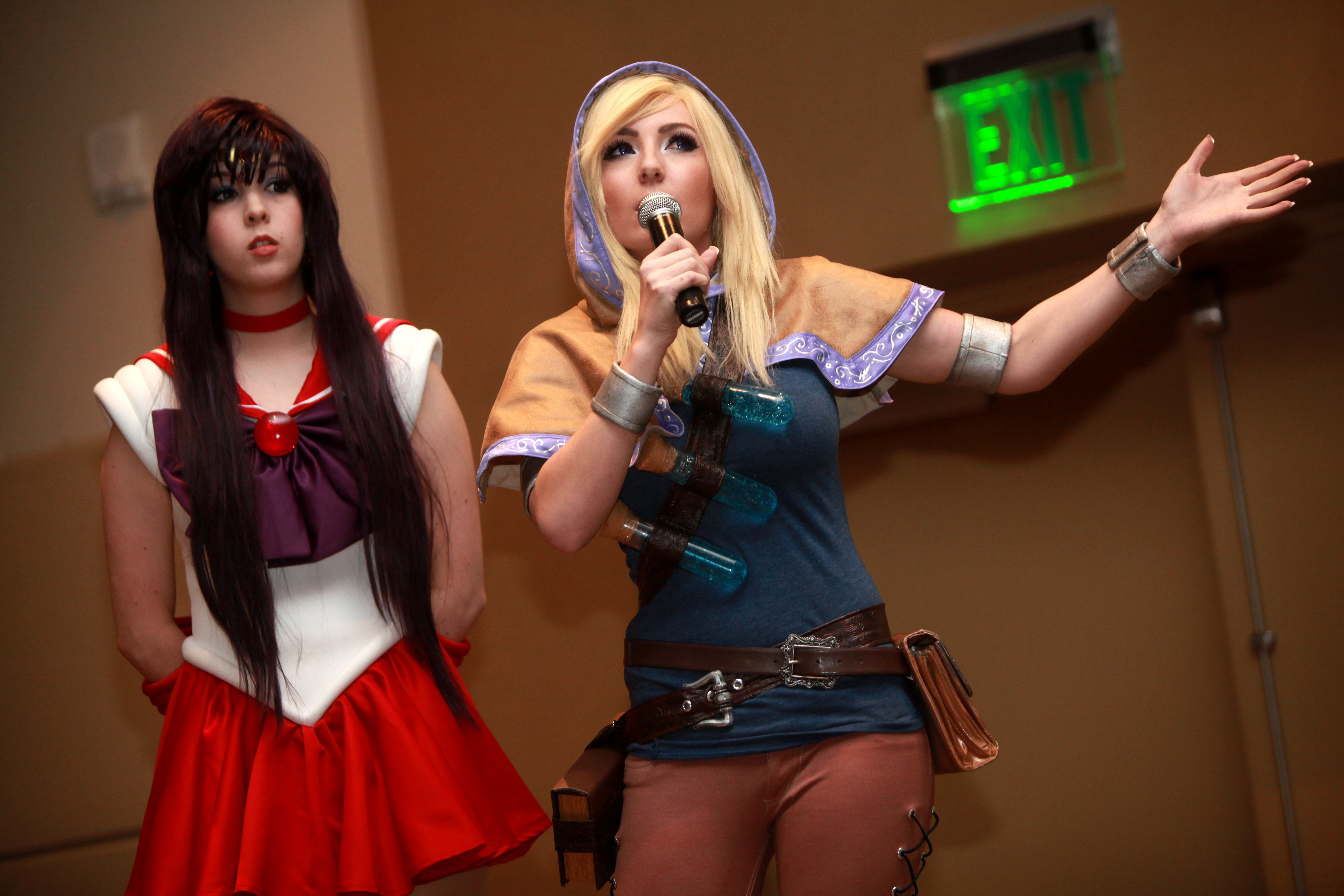 Jessica Nigri and Monika Lee at the 2014 Amazing Arizona Comic Con's Costume Contest at the Phoenix Convention Center in Phoenix, Arizona.